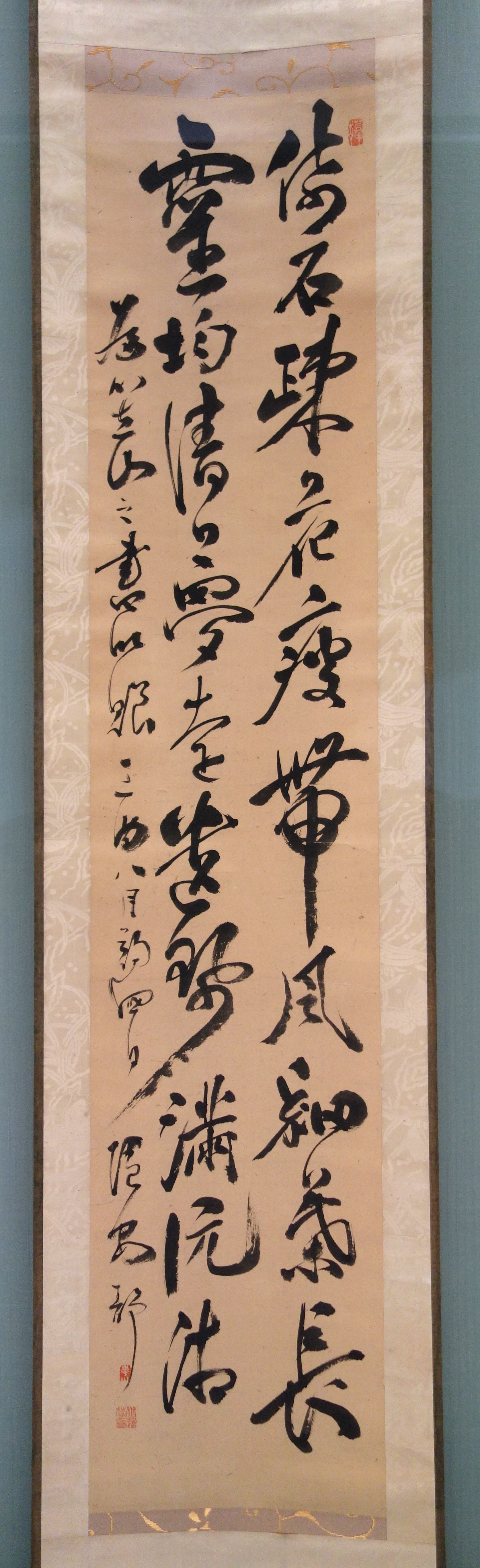 Exhibit in the Tokyo National Museum, Tokyo, Japan. This artwork is old enough so that it is in the public domain.